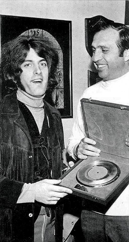 Tommy James after one of his records for Roulette went Gold.